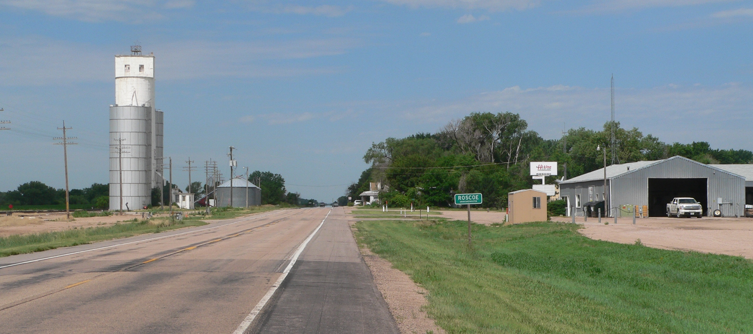 Roscoe, Nebraska: looking westward along U.S. Highway 30.